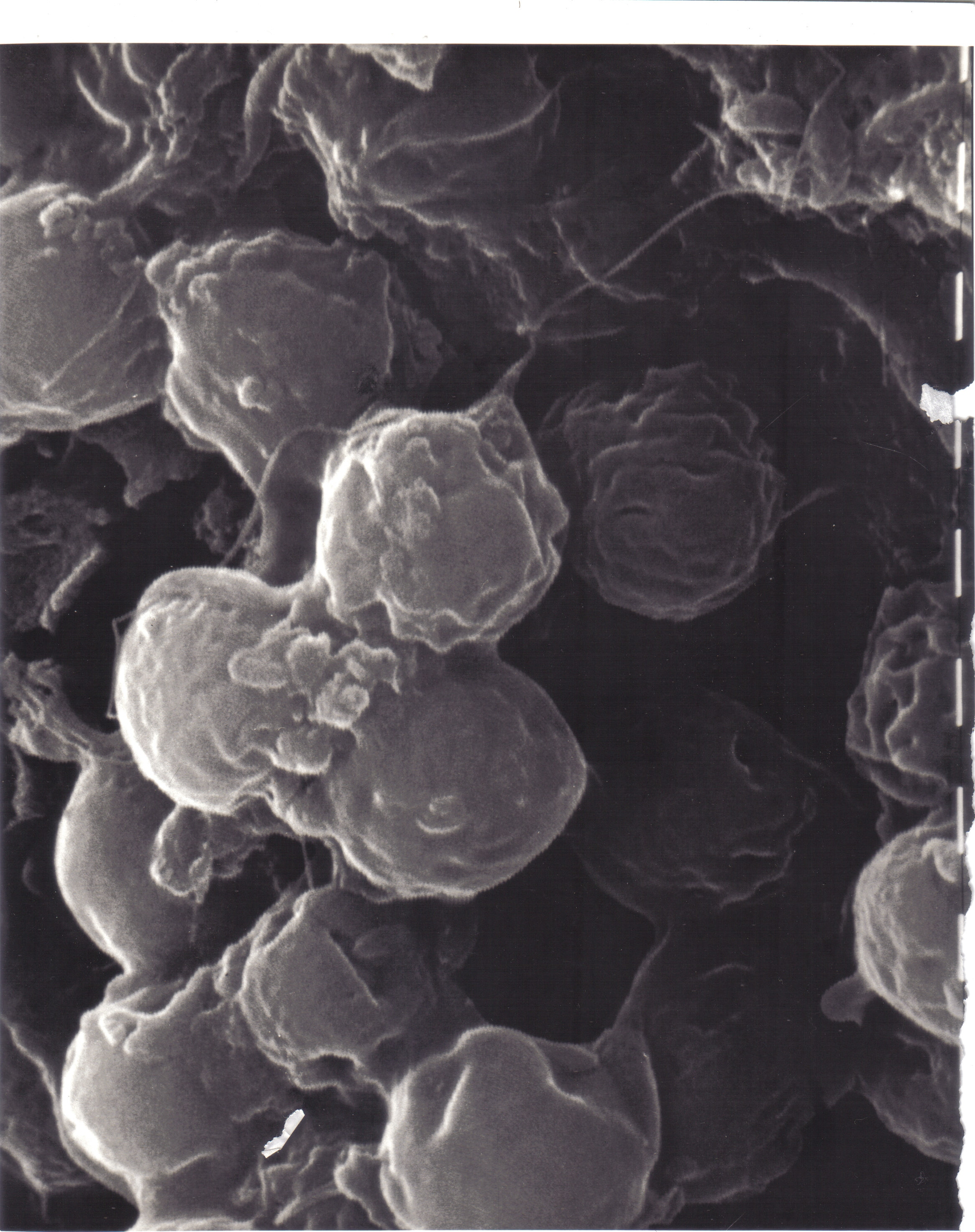 Bodo caudatus, cysts, x12,000. Scanning EM.